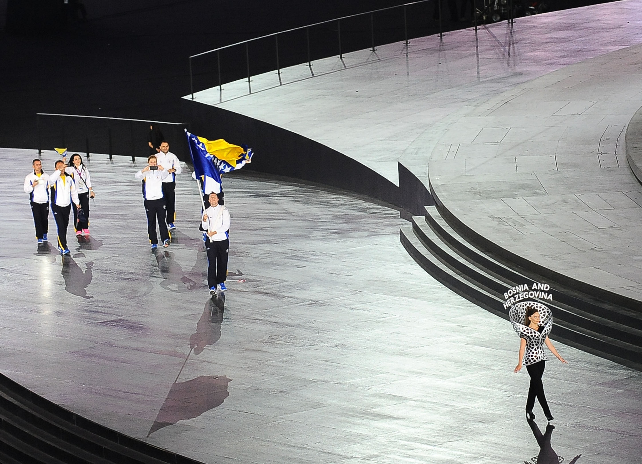 The opening ceremony of the First European games